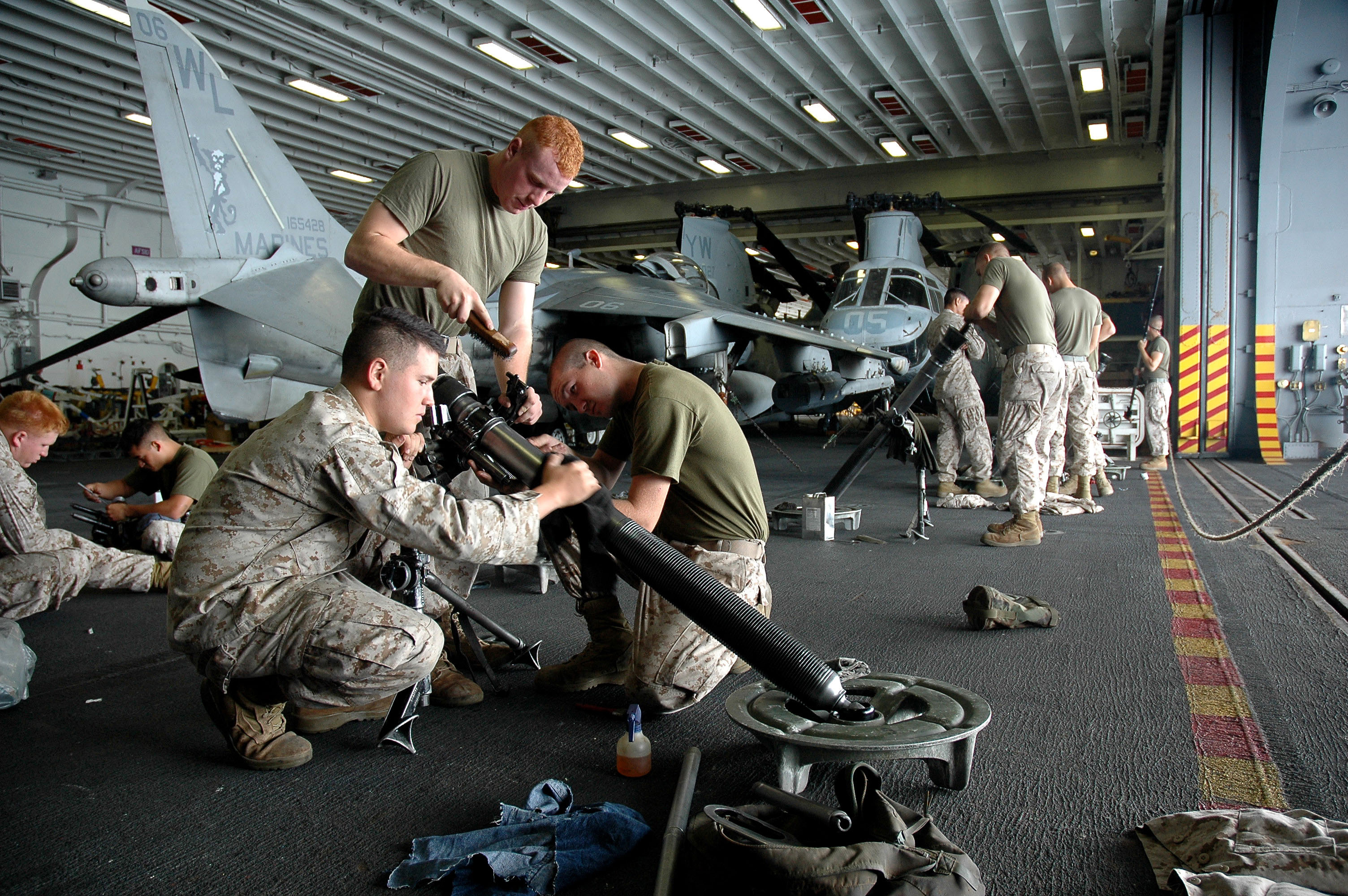 U.S. Marines perform maintenance on their equipment in the hangar bay of the USS Boxer (LHD 4) as the ship operates in the Pacific Ocean on Aug. 15, 2006. The Marines are part of Weapons Company, 2nd Battalion, 4th Marines, attached to the 15th Marine Expeditionary Unit.